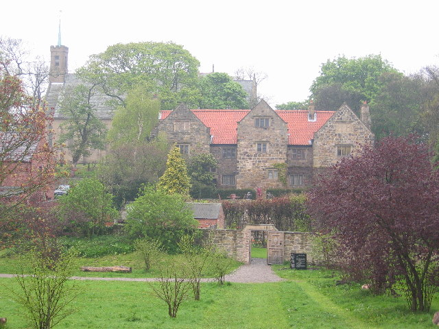 Washington Old Hall